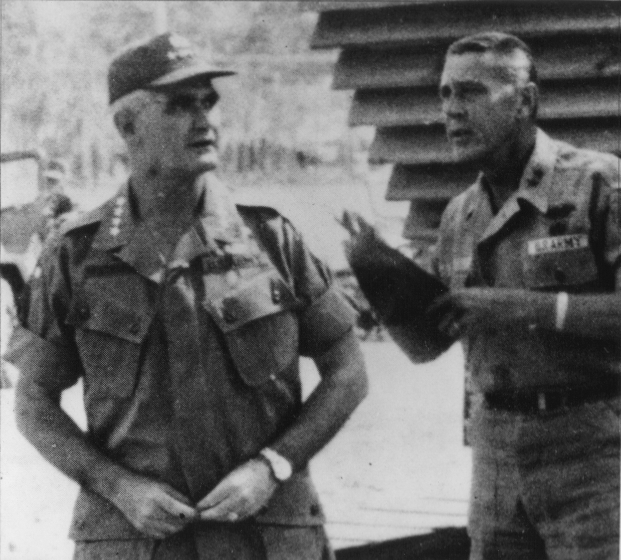 General William C. Westmoreland (left) and Major General John H. Hay, Jr.